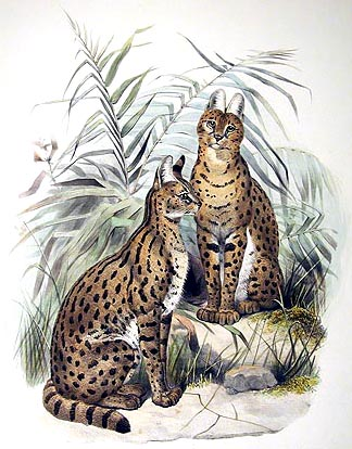 Felis serval